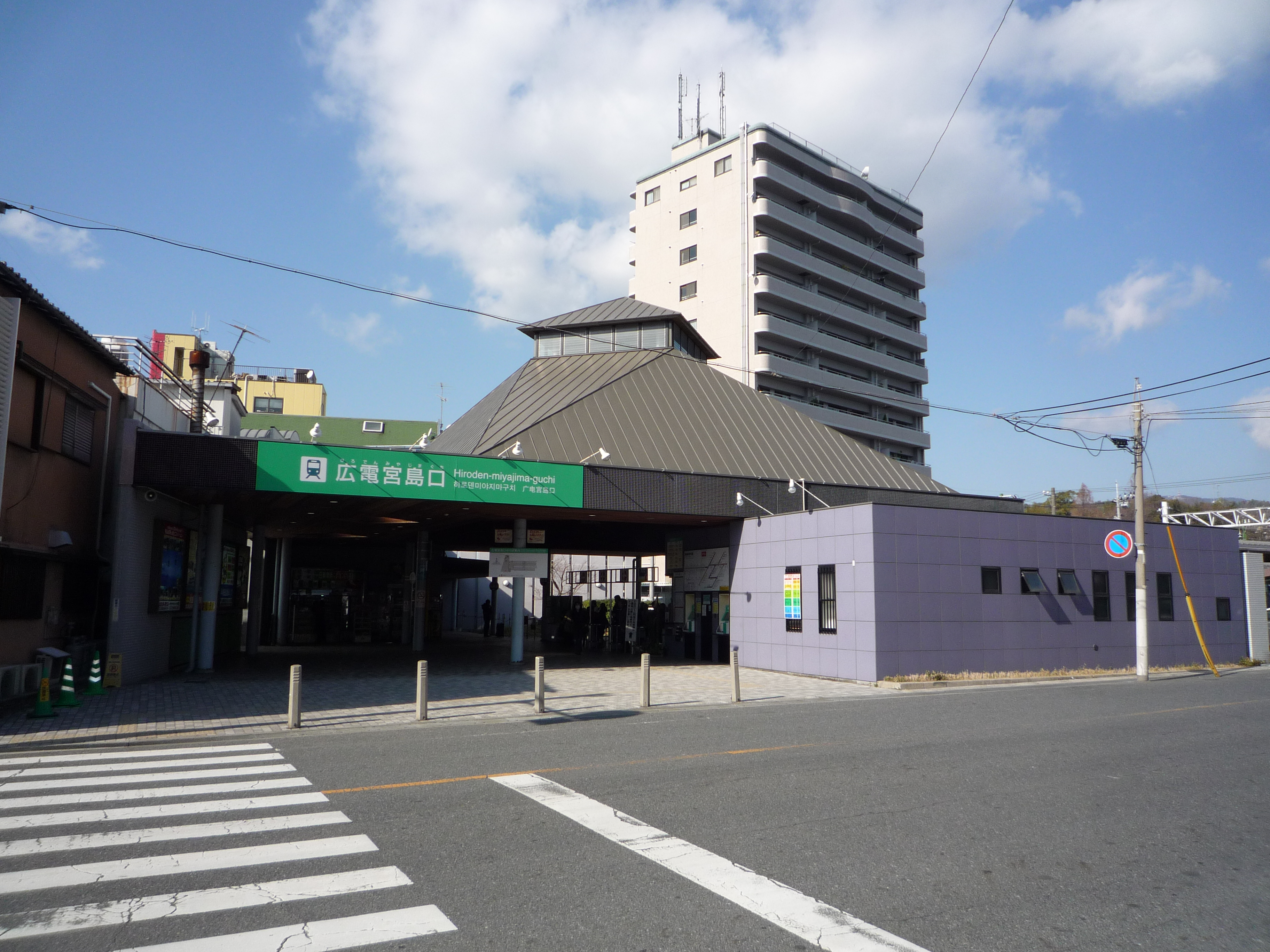 Hiroden Miyajimaguchi Station